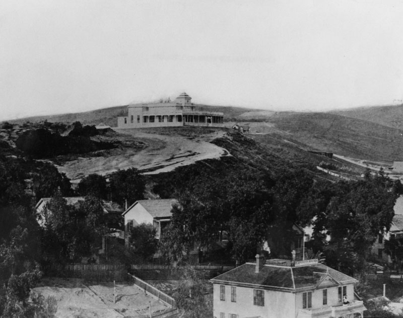 The Banning House (of Phineas Banning) on Fort Moore Hill, site of the old Fort Moore. The structure was built by Jacob Philippi as a beer hall, but Banning purchased and transformed it into a home. Part of the trenches of old Fort Moore, built in 1846-1847, are visible in the upper left.